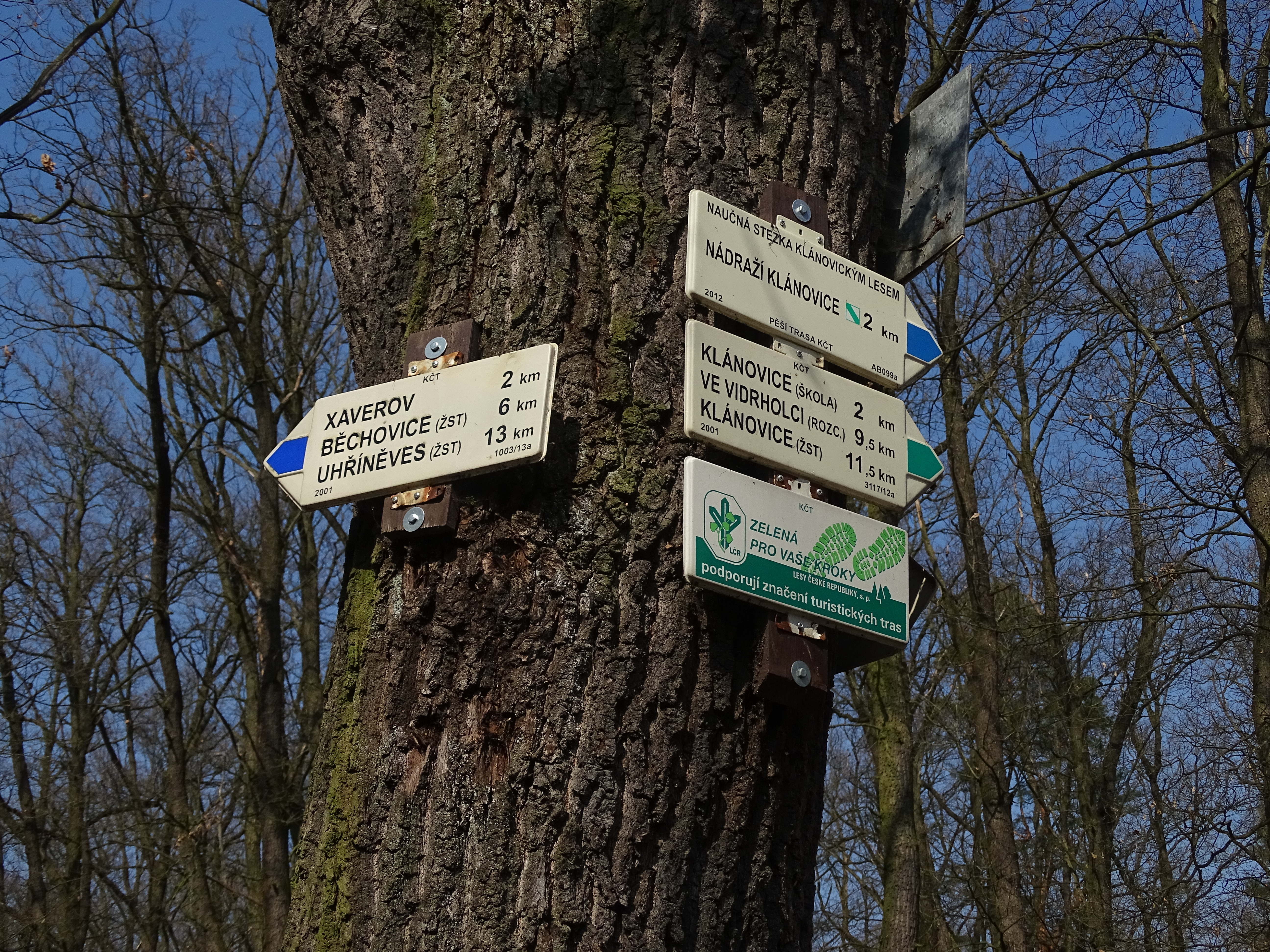 Prague-Klánovice, Czech Republic. Klánovice Forest, a fingerpost near Nové Dvory.